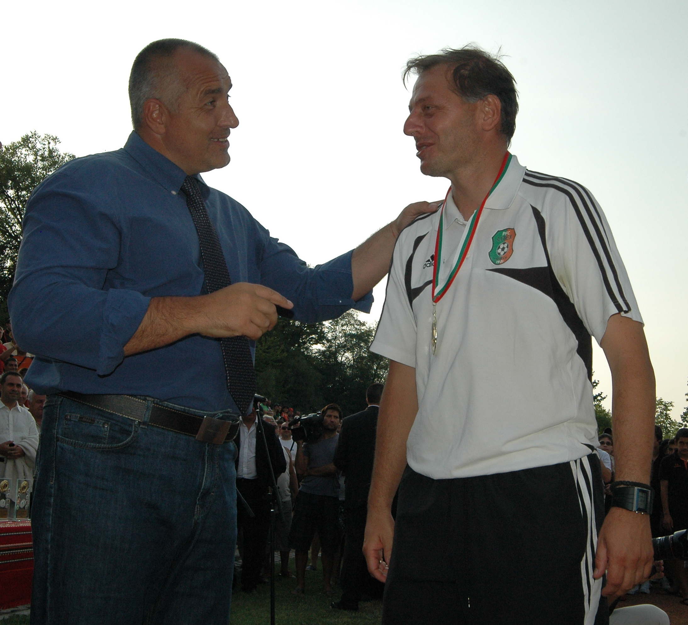 Petko Petkov